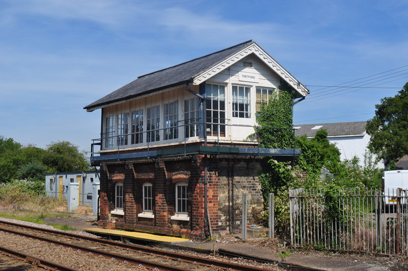 Thetford Signal Box, near to Thetford, Norfolk, Great Britain. Thetford was a bit of afterthought on the Breckland line, at first the Norwich to Brandon Railway company where going to build right past and construct a small branch line, works even started. However the line did reach Thetford and now it is a major station.